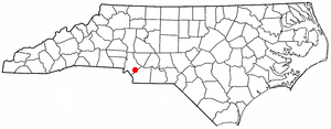 Category:North Carolina Dot Maps